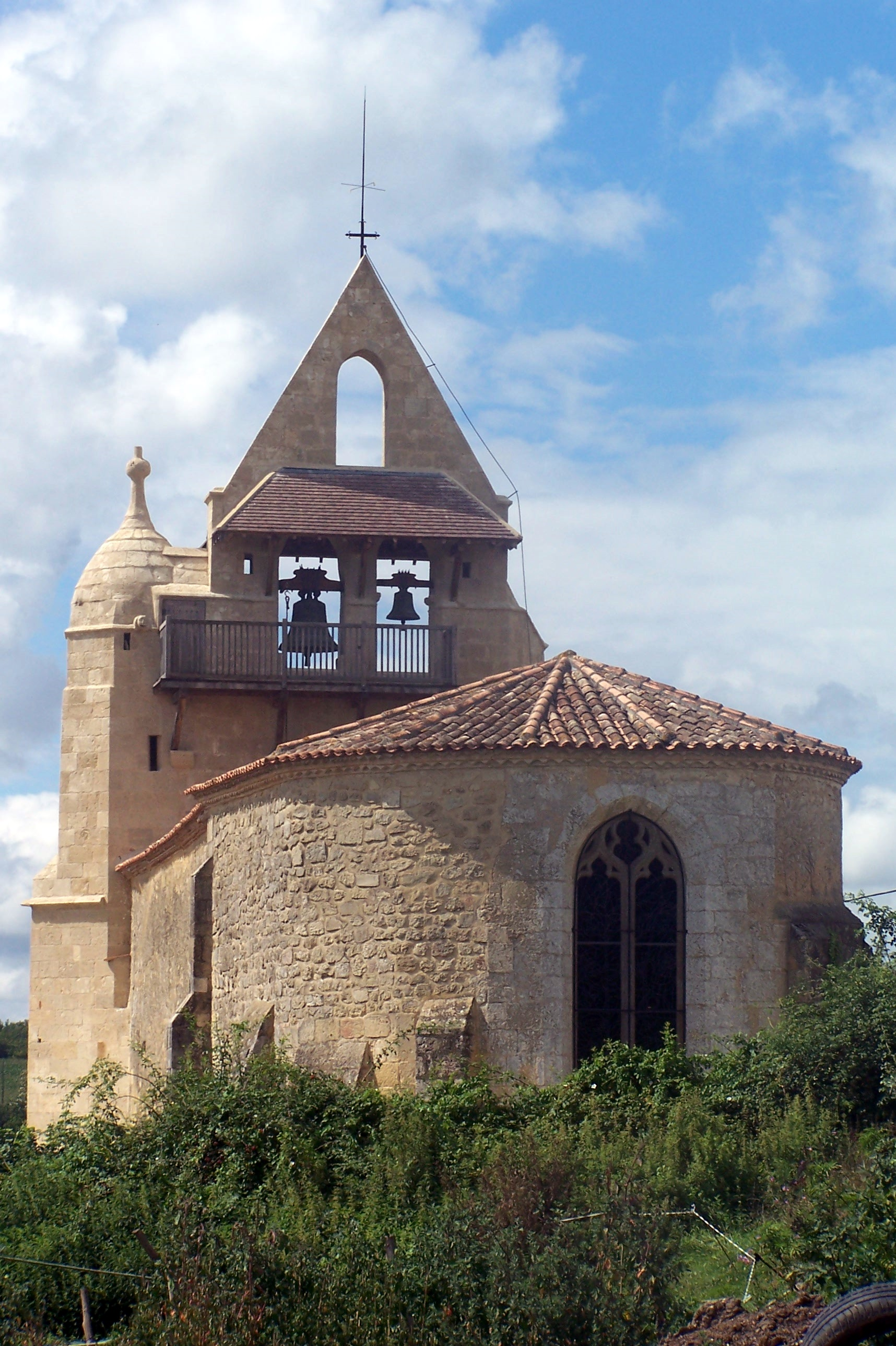 Church of Saint-Exupéry (Gironde, France)